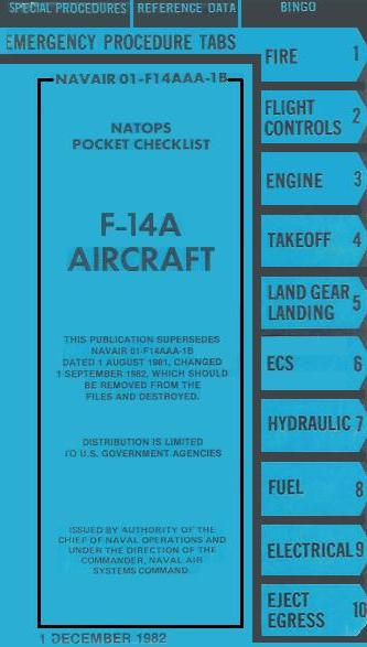 NATOPS Pocket Checklist cover from F-14.